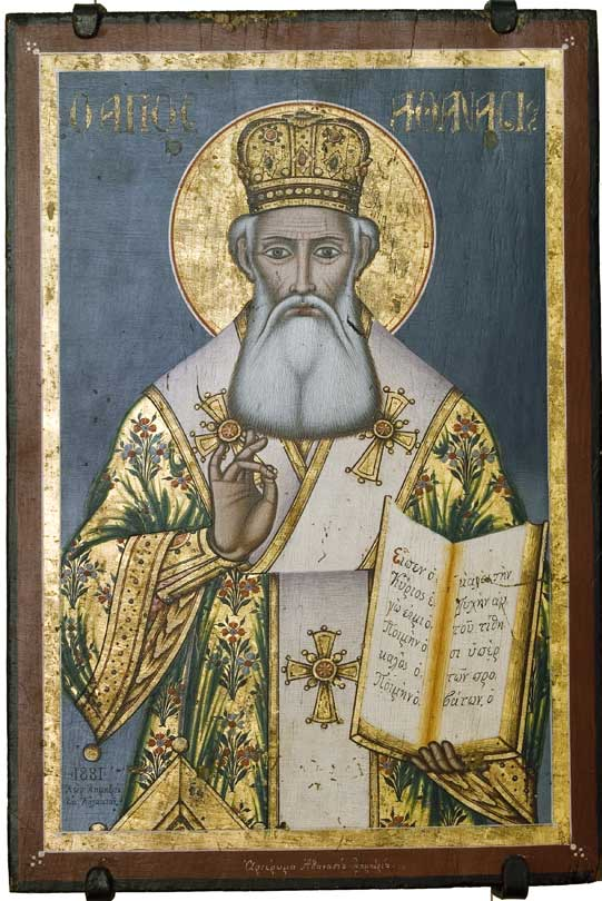 Saint Athanasius Icon 45x30.5 - 1881 by Dimitrios Chatzistamatis from Kulakia